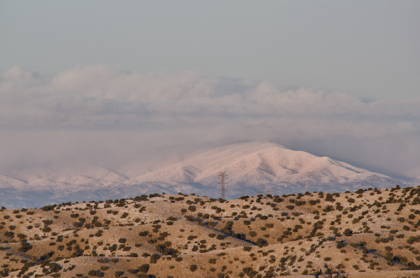 About 50 miles away, taken a few minutes before sunset from the deck with the 55-300.